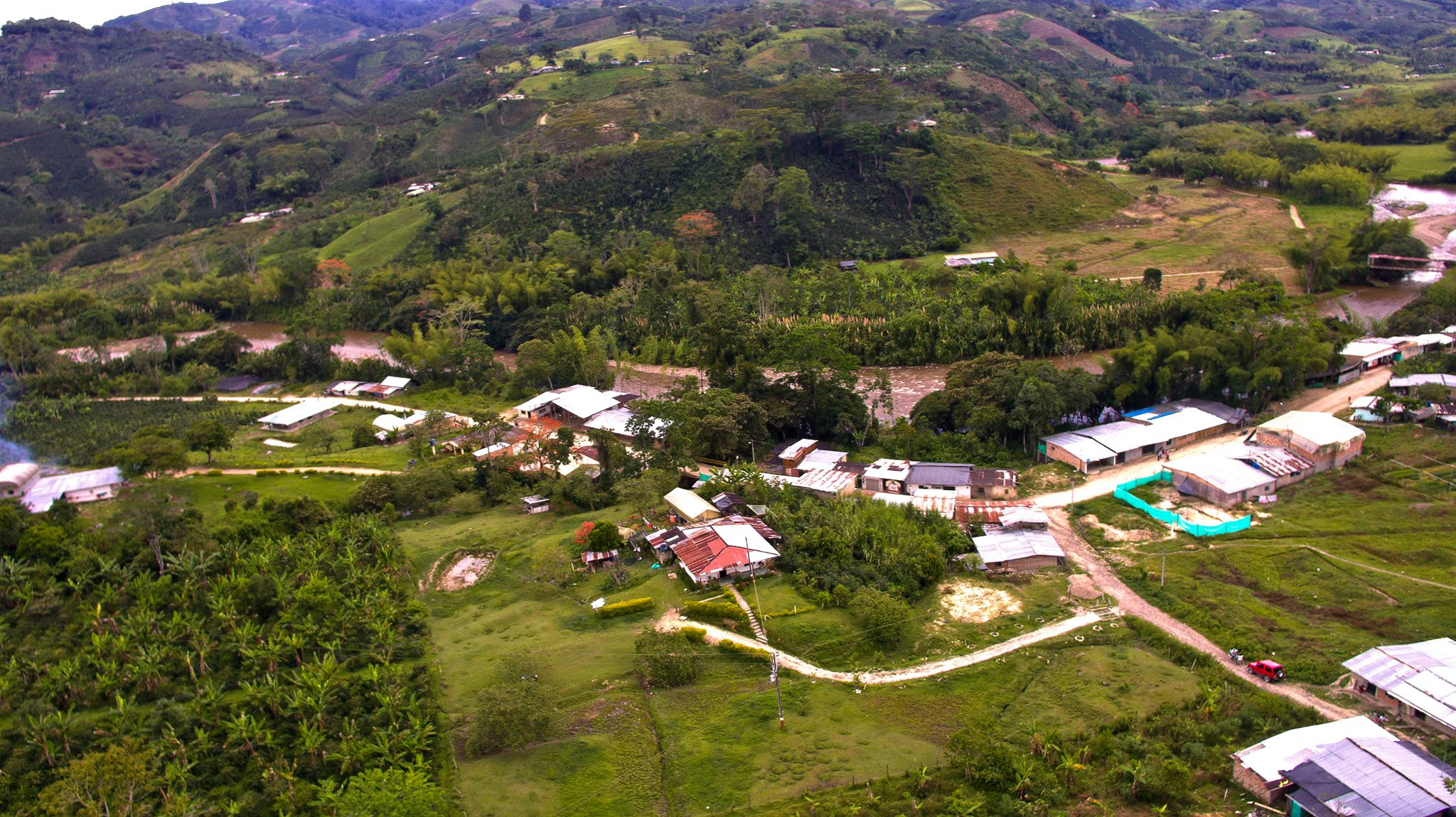 San marcos ACEVEDO huila 4